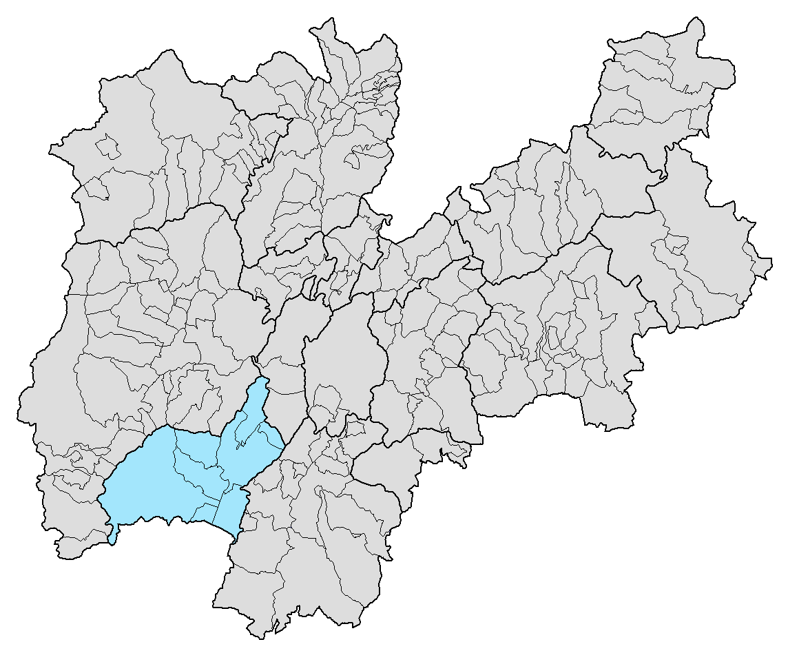 Location map of "Comunità Alto Garda e Ledro" (9)